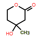 Mevalonolactone chemical structure